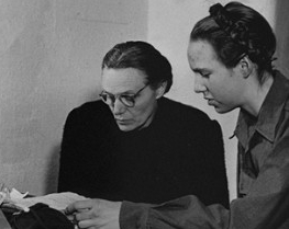 Margarete and Gudrun Himmler aka Burwitz (right) at the International Military Tribunal trial of war criminals at Nuremberg.